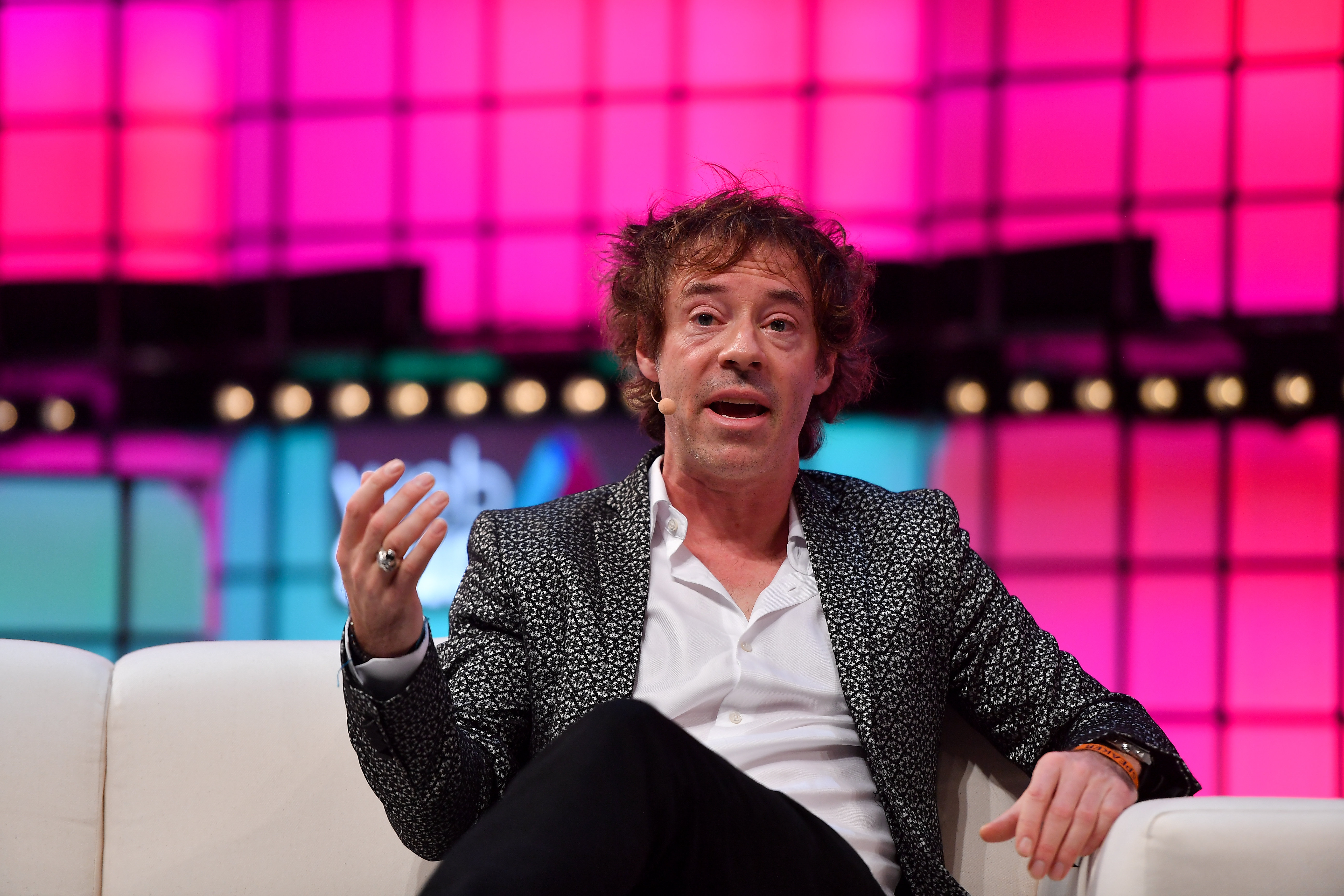 8 November 2018; Michael Acton Smith, Co-founder & Co-CEO, Calm, on Centre Stage during day three of Web Summit 2018 at the Altice Arena in Lisbon, Portugal. Photo by Seb Daly/Web Summit via Sportsfile